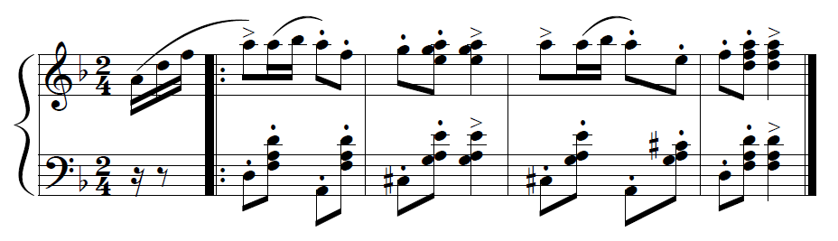 The first four measures to Polka Italienne (Italian Polka) by Sergei Rachmaninoff.